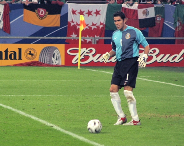 Oswaldo Sanchez during a game with the Mexican Soccer National Team.